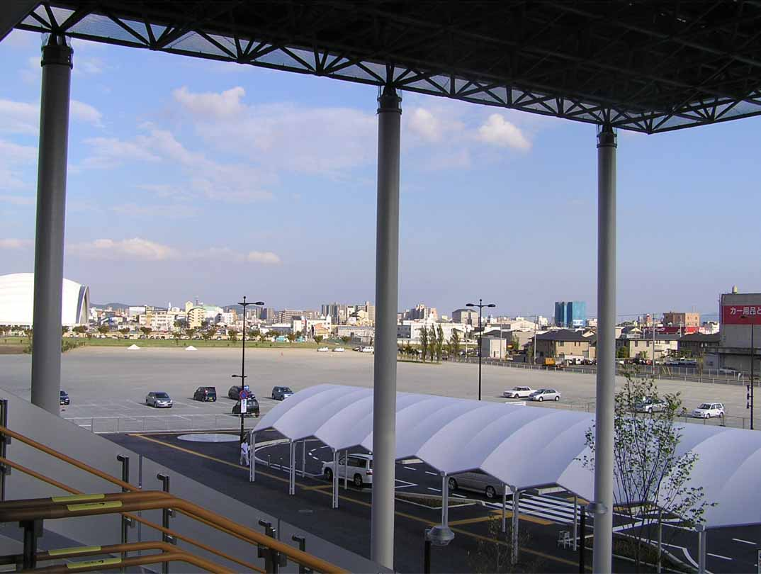 Around the south entrance of kitanagase Station